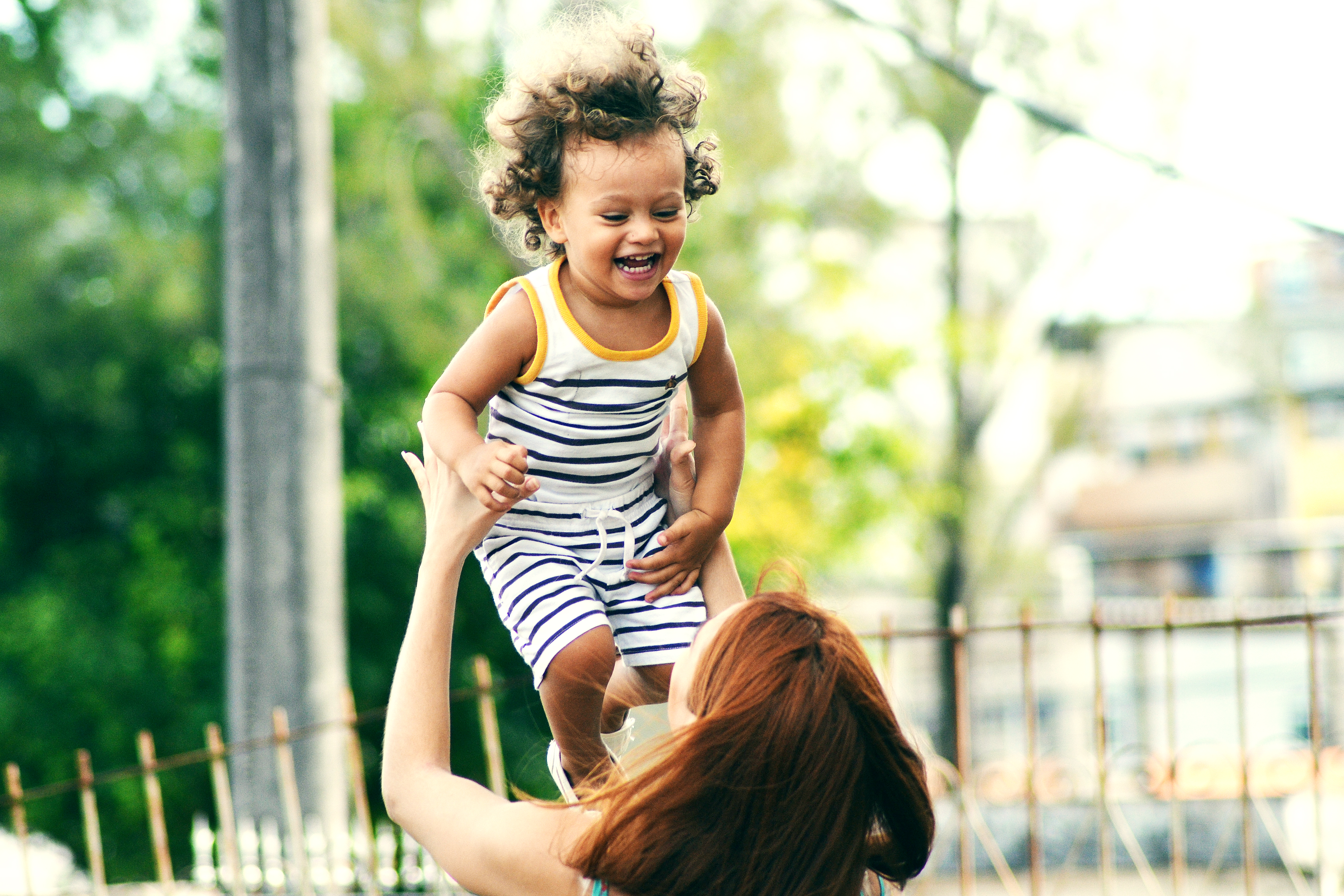 Salvador, Brazil